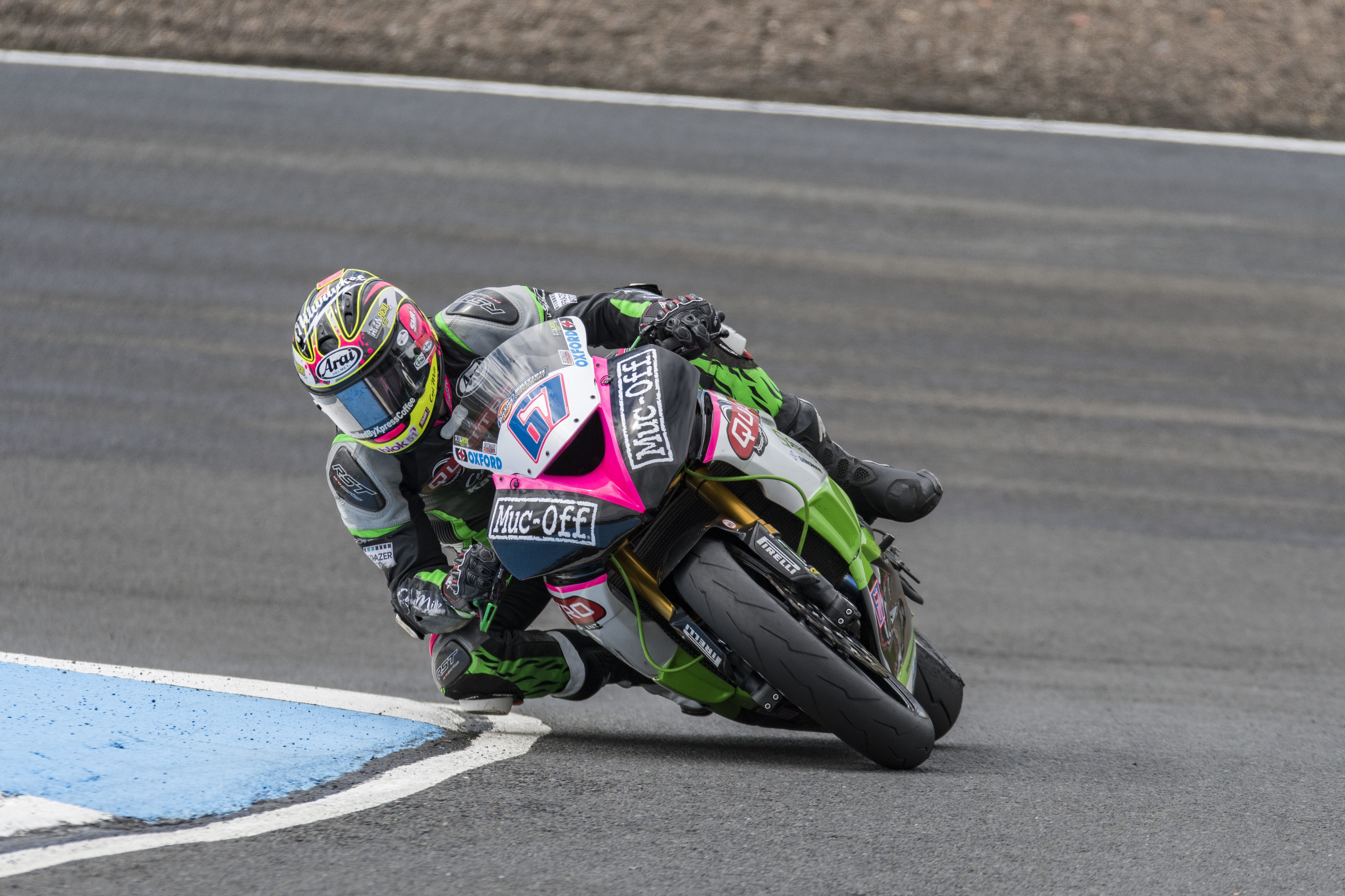 2016 British Supersport Championship Round 4, Knockhill – #67 Andy Reid – Kawasaki – Quattro Plant Cool Kawasaki